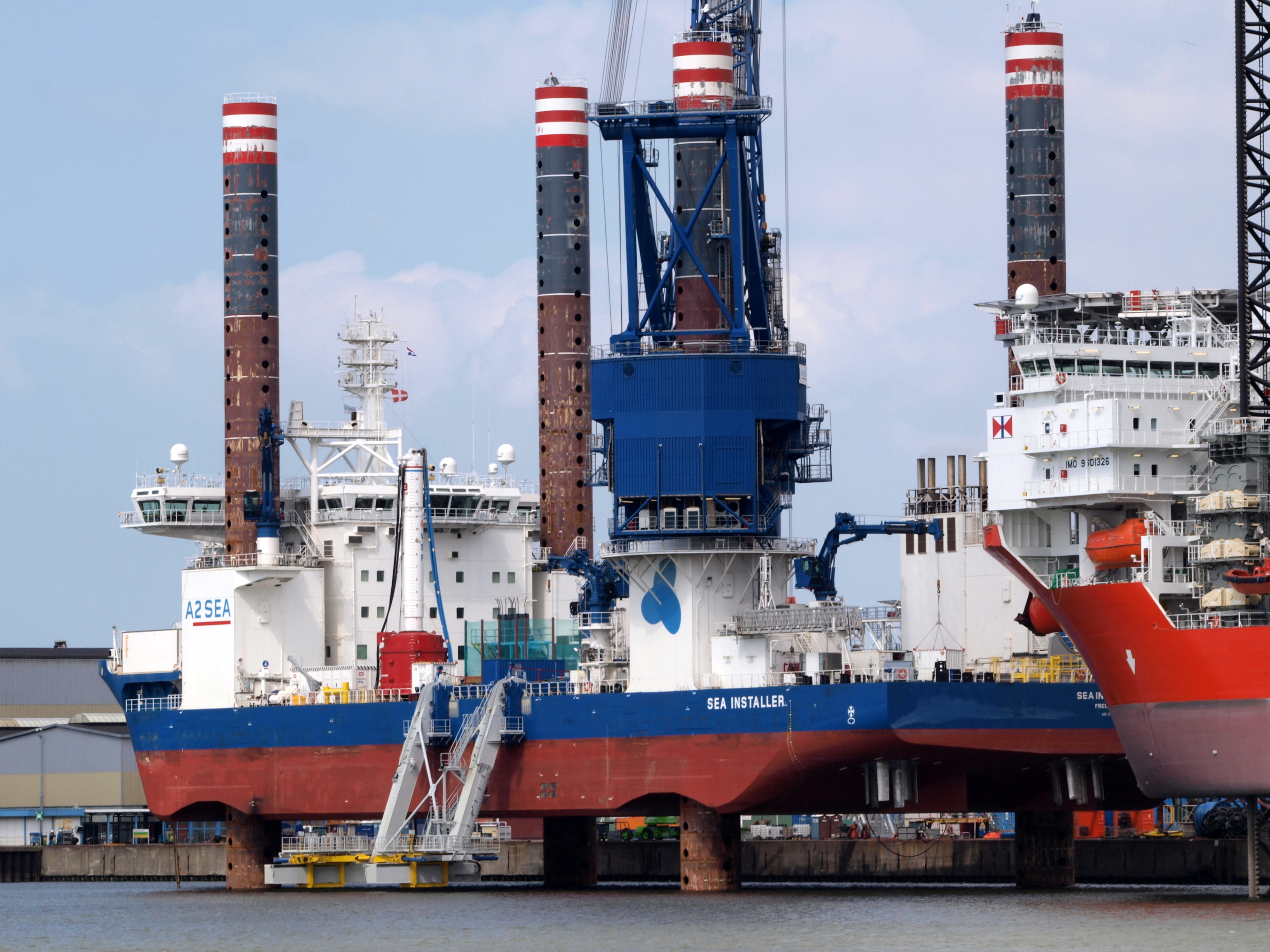 Photographed at or near the Port of Rotterdam.